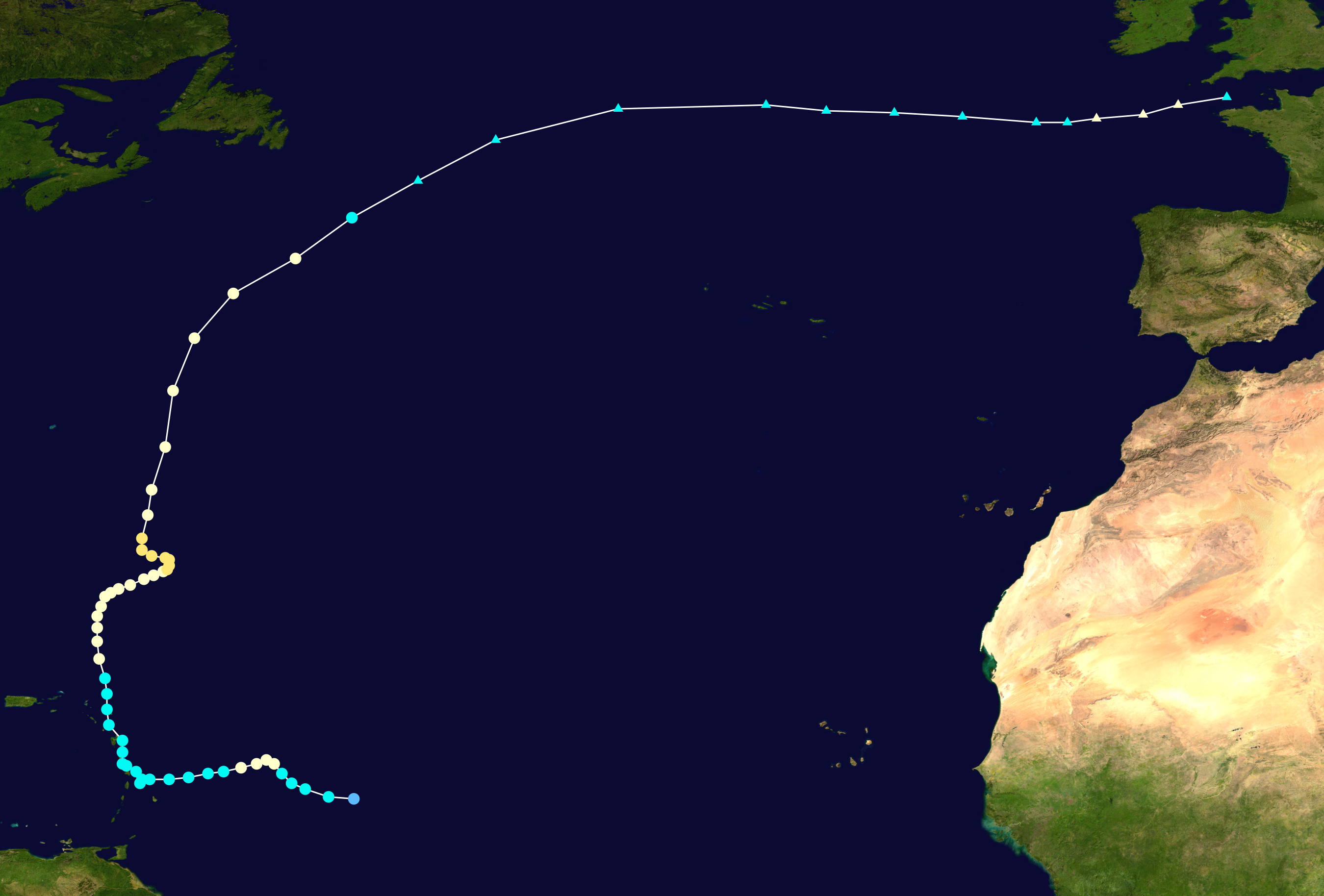 Track map of Hurricane Iris of the 1995 Atlantic hurricane season. The points show the location of the storm at 6-hour intervals. The colour represents the storm's maximum sustained wind speeds as classified in the Saffir–Simpson scale (see below), and the shape of the data points represent the nature of the storm, according to the legend below. Saffir–Simpson scale Tropical depression≤38 mph≤62 km/h Category 3111–129 mph178–208 km/h Tropical storm39–73 mph63–118 km/h Category 4130–156 mph209–251 km/h Category 174–95 mph119–153 km/h Category 5≥157 mph≥252 km/h Category 296–110 mph154–177 km/h Unknown Storm type Tropical cyclone Subtropical cyclone Extratropical cyclone / Remnant low / Tropical disturbance / Monsoon depression